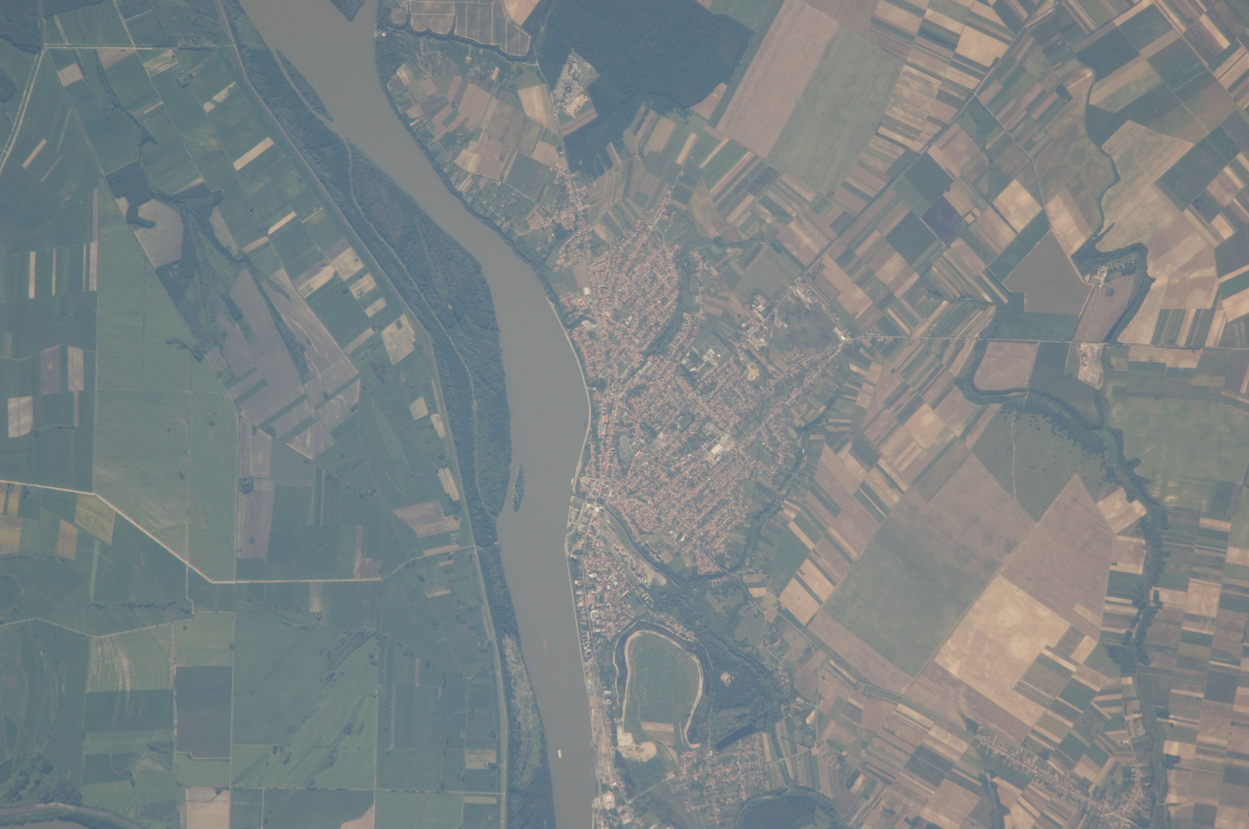 Satellite picture of Dranube and Vukovar